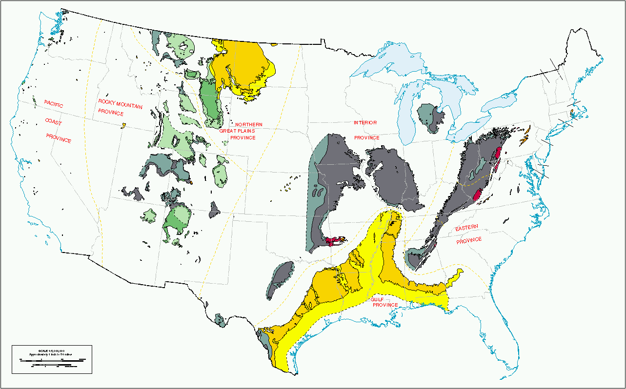 United States coal regions with provinces shown.